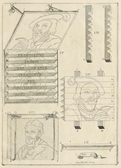 illustration of channel perspective from Nicéron's 1638 book